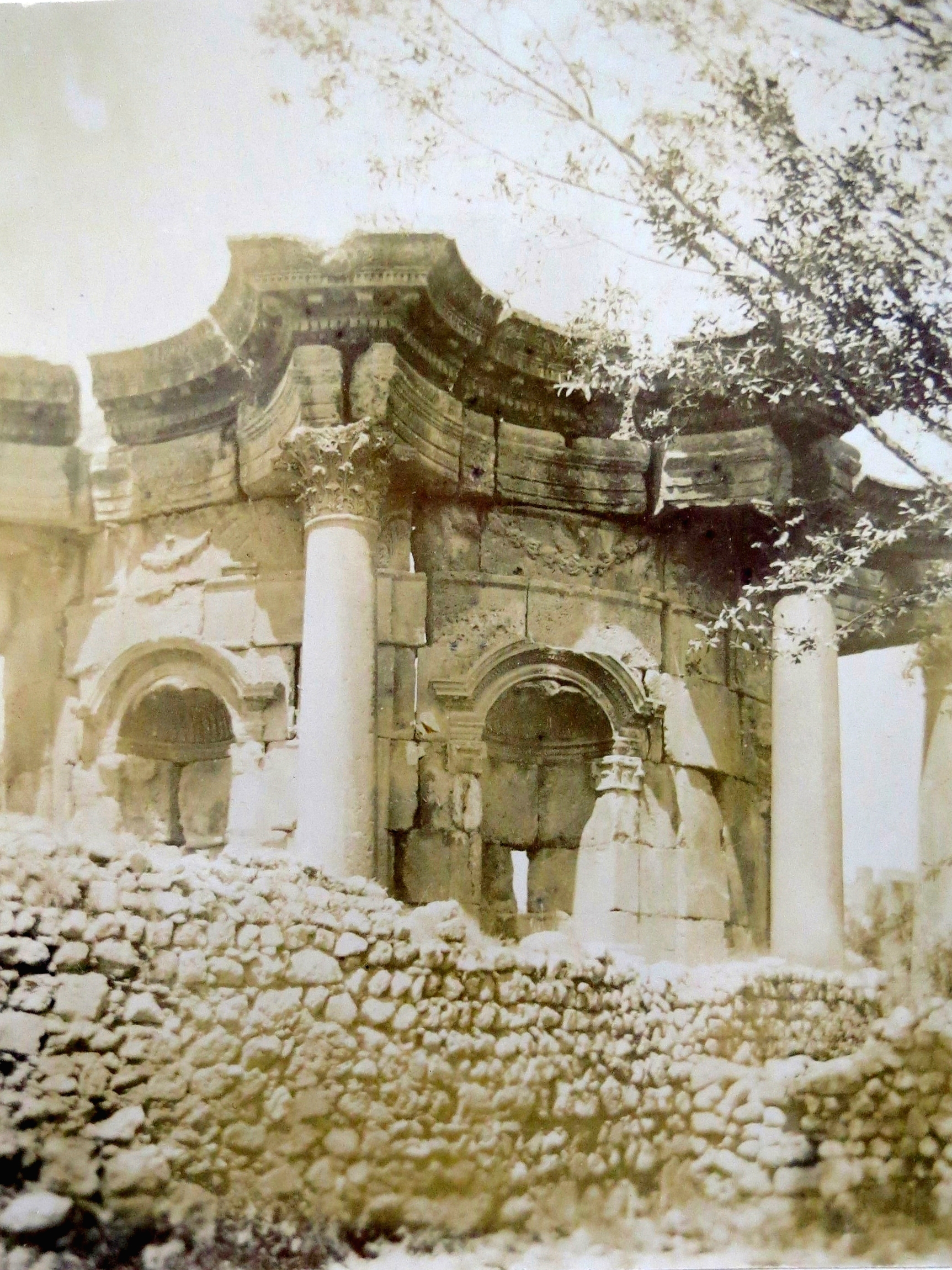 The Basilica of Constantine at Baalbek, formed over the ruins of the Temple of Venus. From original silver print in book titled: "A Month in Palestine and Syria, April 1891," (author unknown). Original 19th century book in the possession of Kimberly Blaker, New Boston Fine and Rare Books.